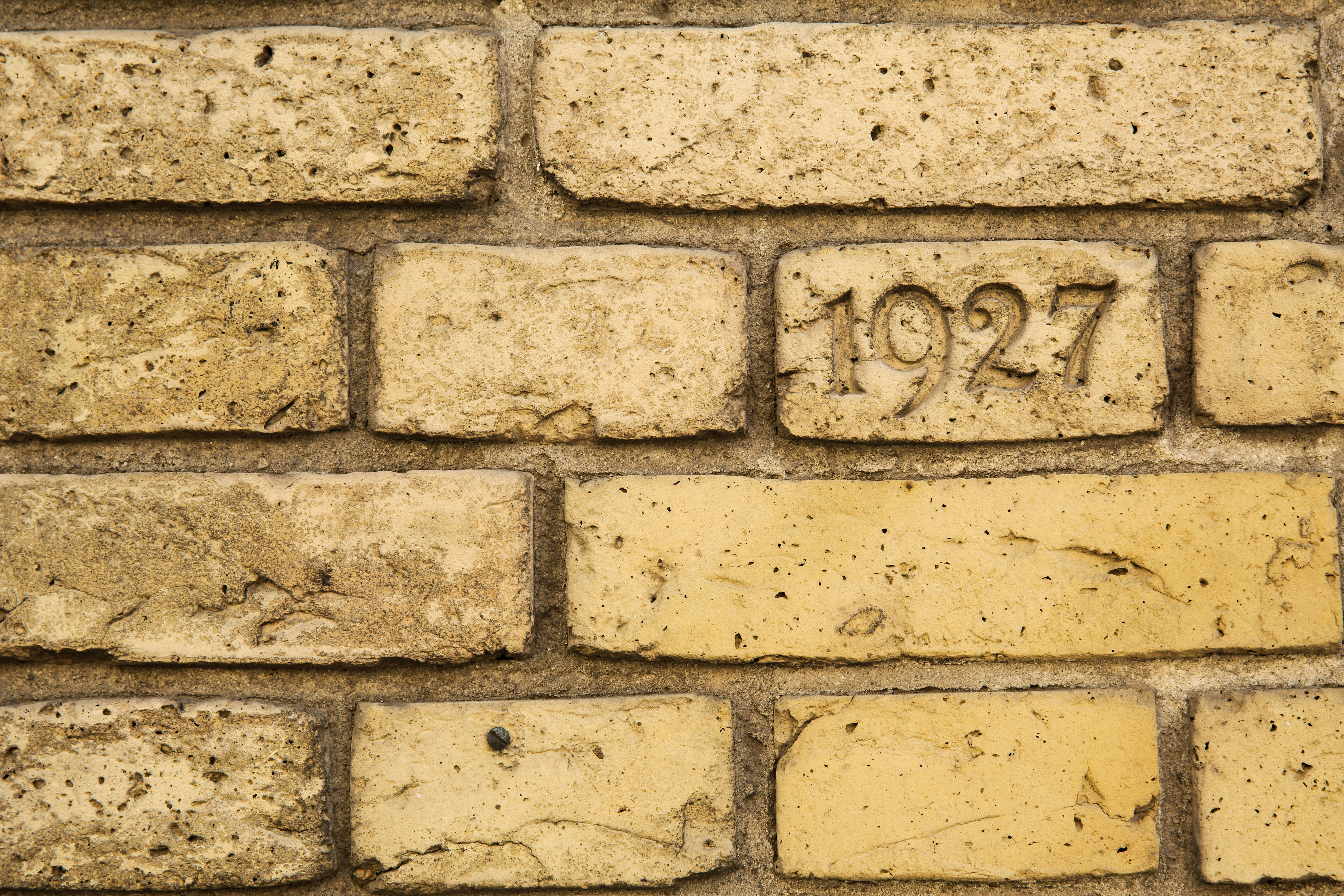 Brick with 1927 printed in the stone, from the facade of the Aarhus Central Station which was built in 1927